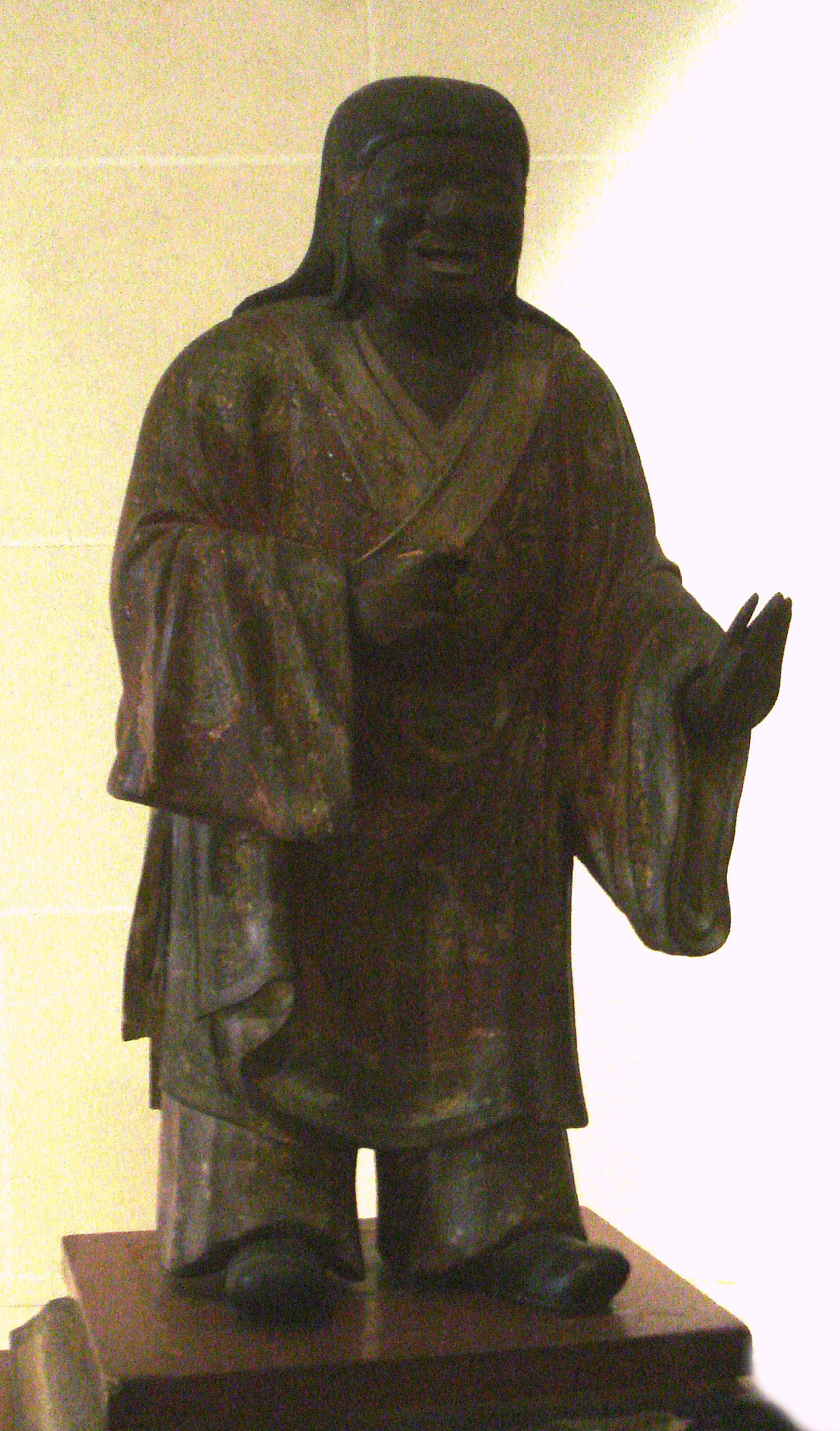 Fu-Daishi